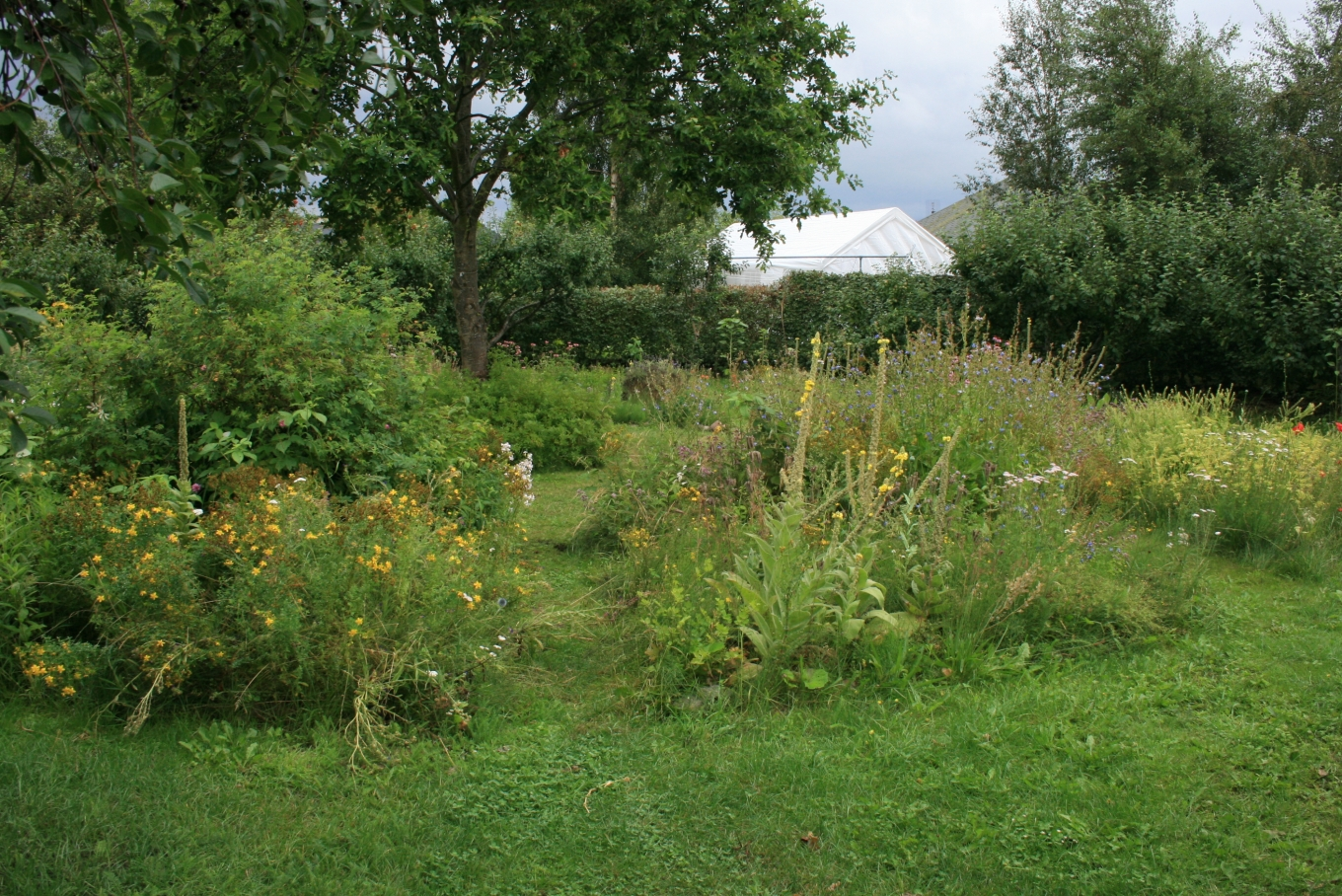 The village society of "Dyssekilde" at Torup, northern Sealand, Denmark